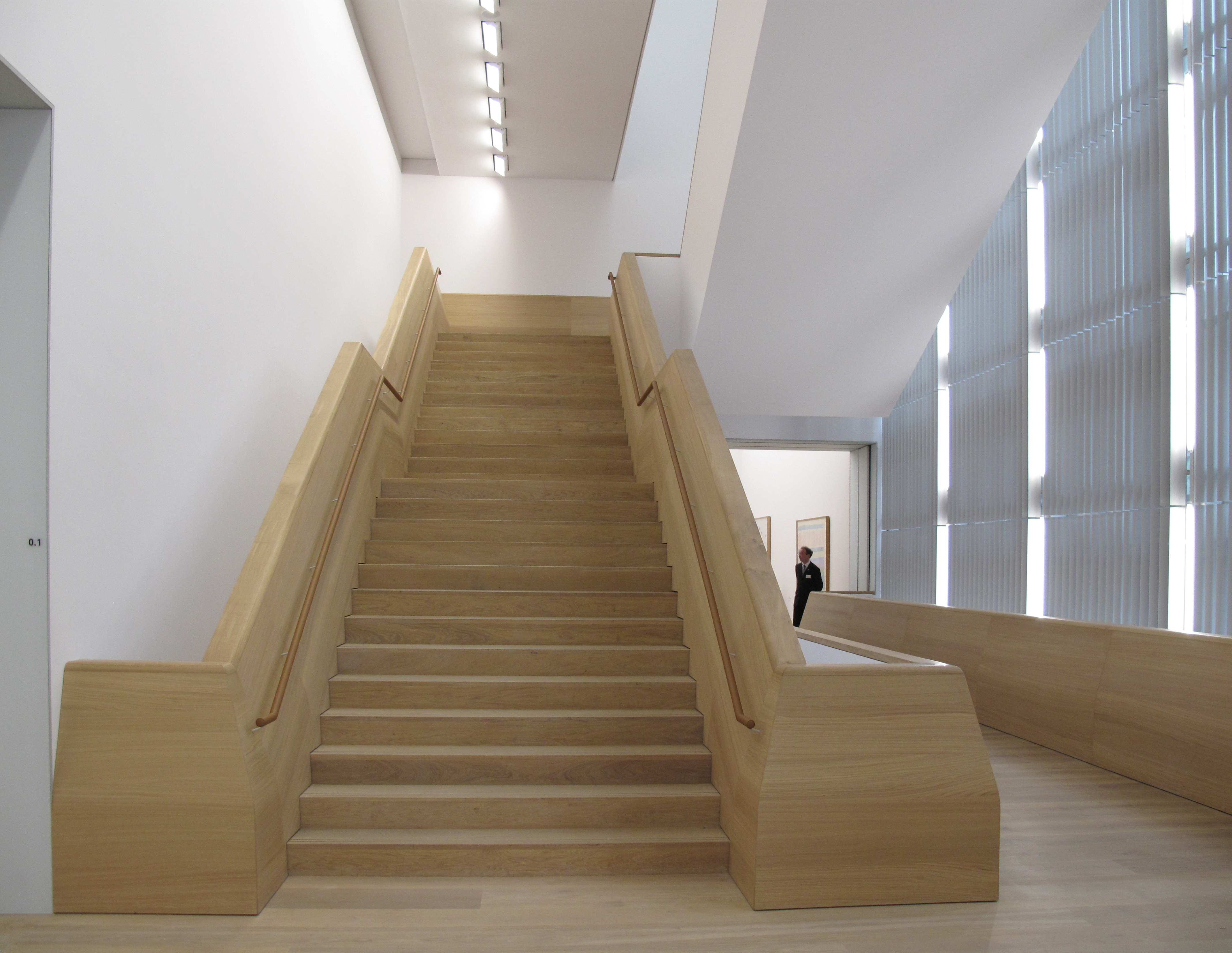 Museum Brandhorst, Munich, Maxvorstadt, Kunstareal, stairway (from the main floor leading to the 1st floor)